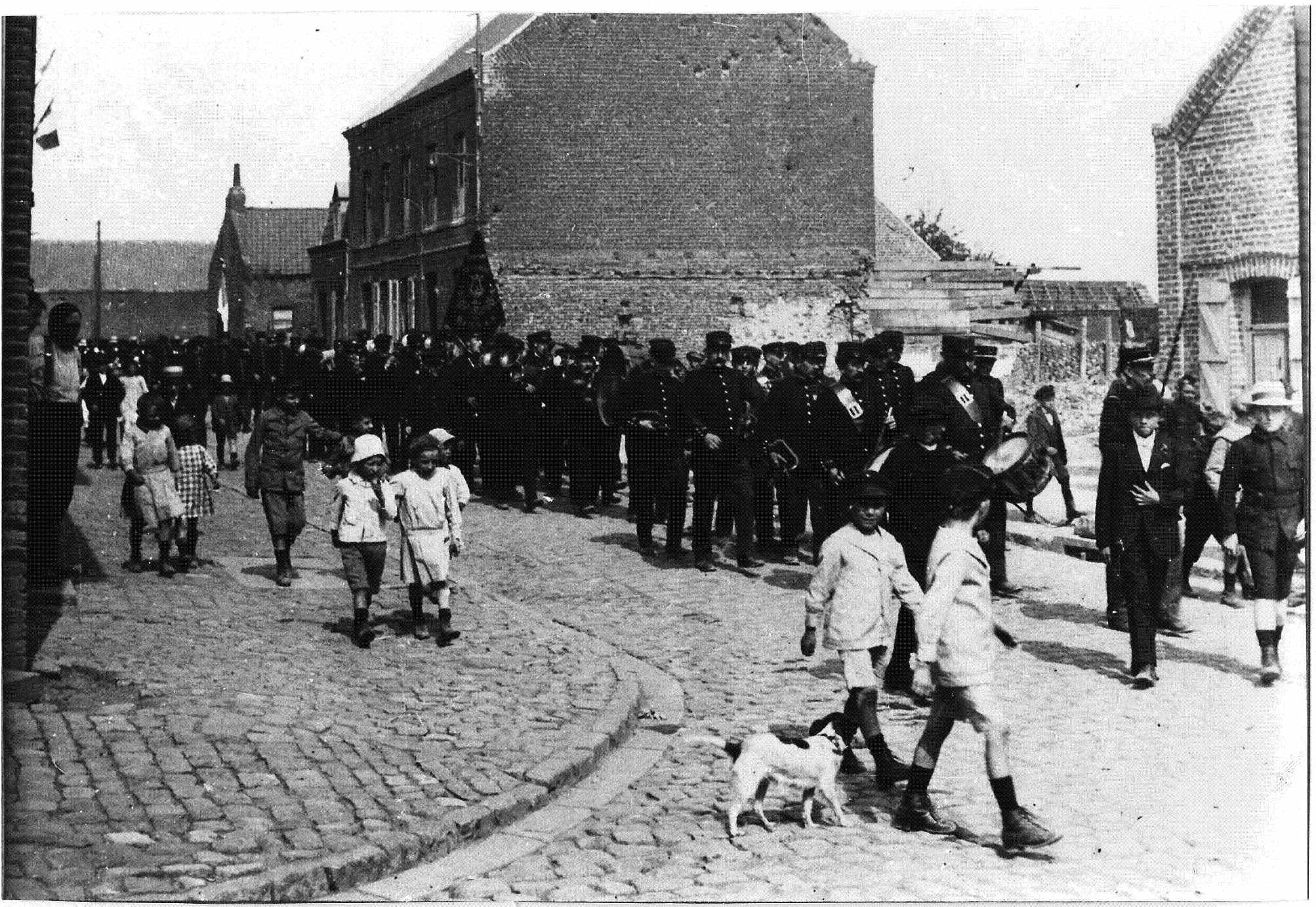 L'Harmonie de Harnes sur la Grand'Place après la 1ère guerre mondiale